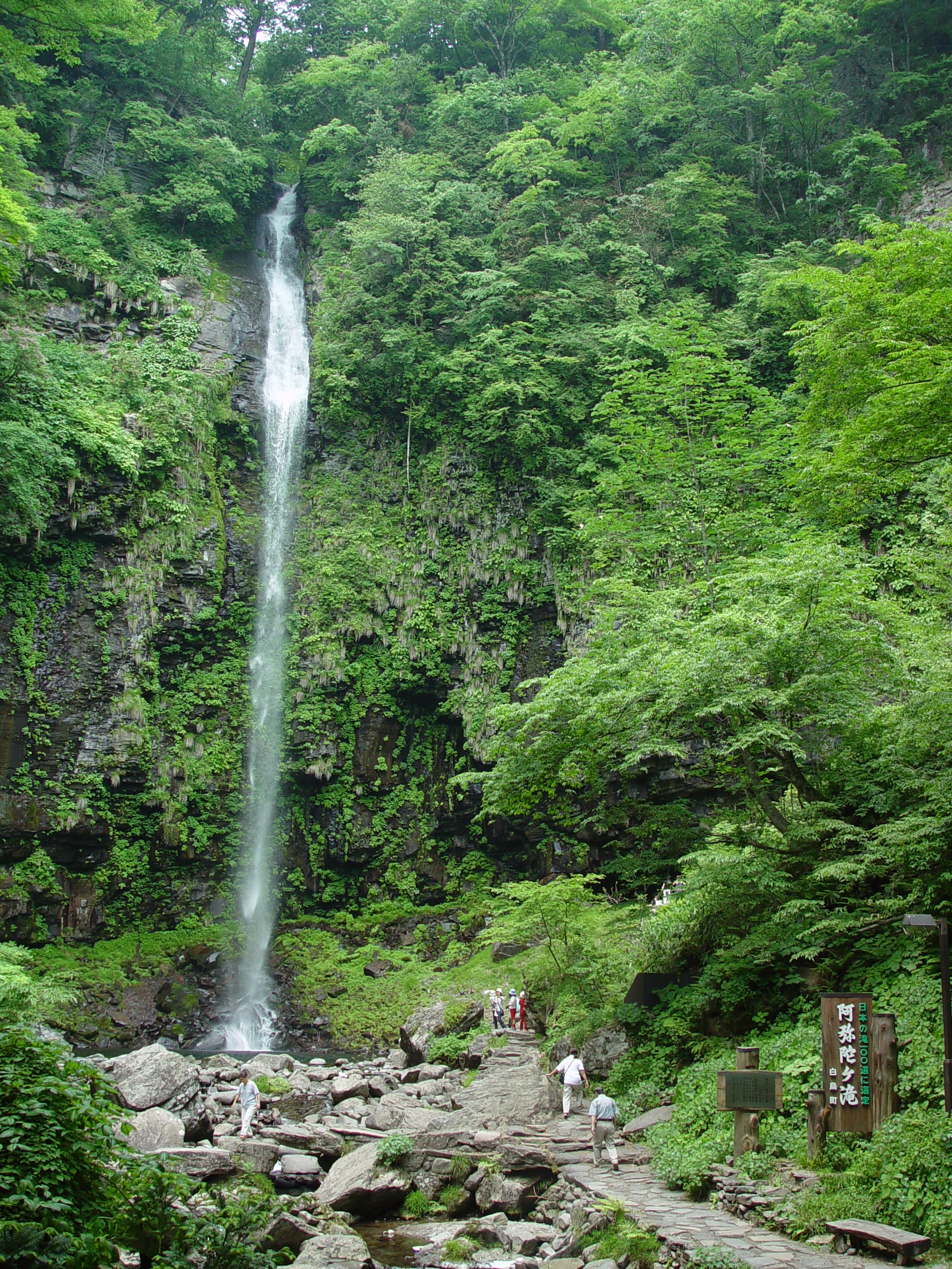 Amidagataki (Amidaga Falls), in Gujō, Gifu, Japan.